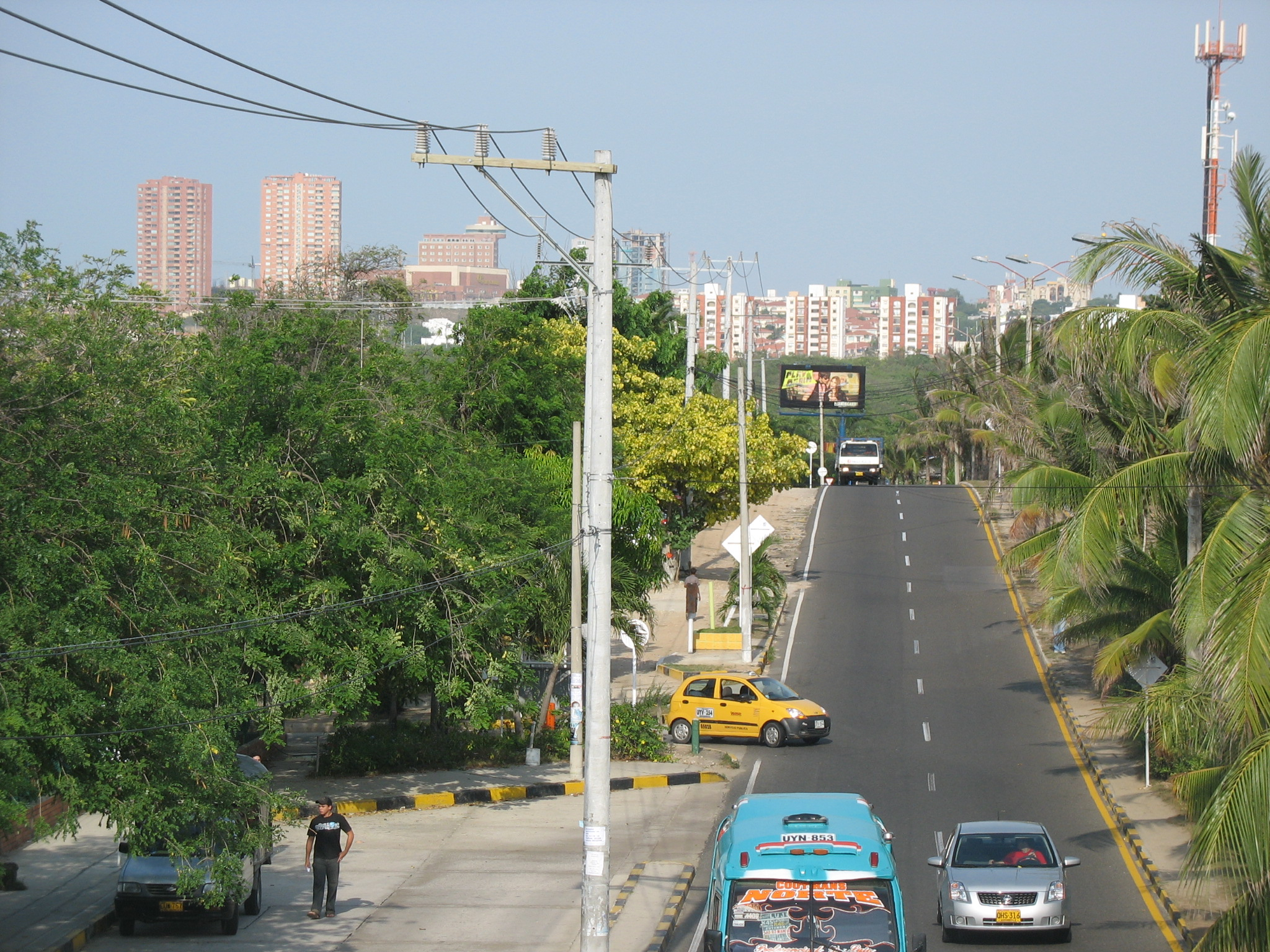 Megalópolis Barranquilla-Cartagena